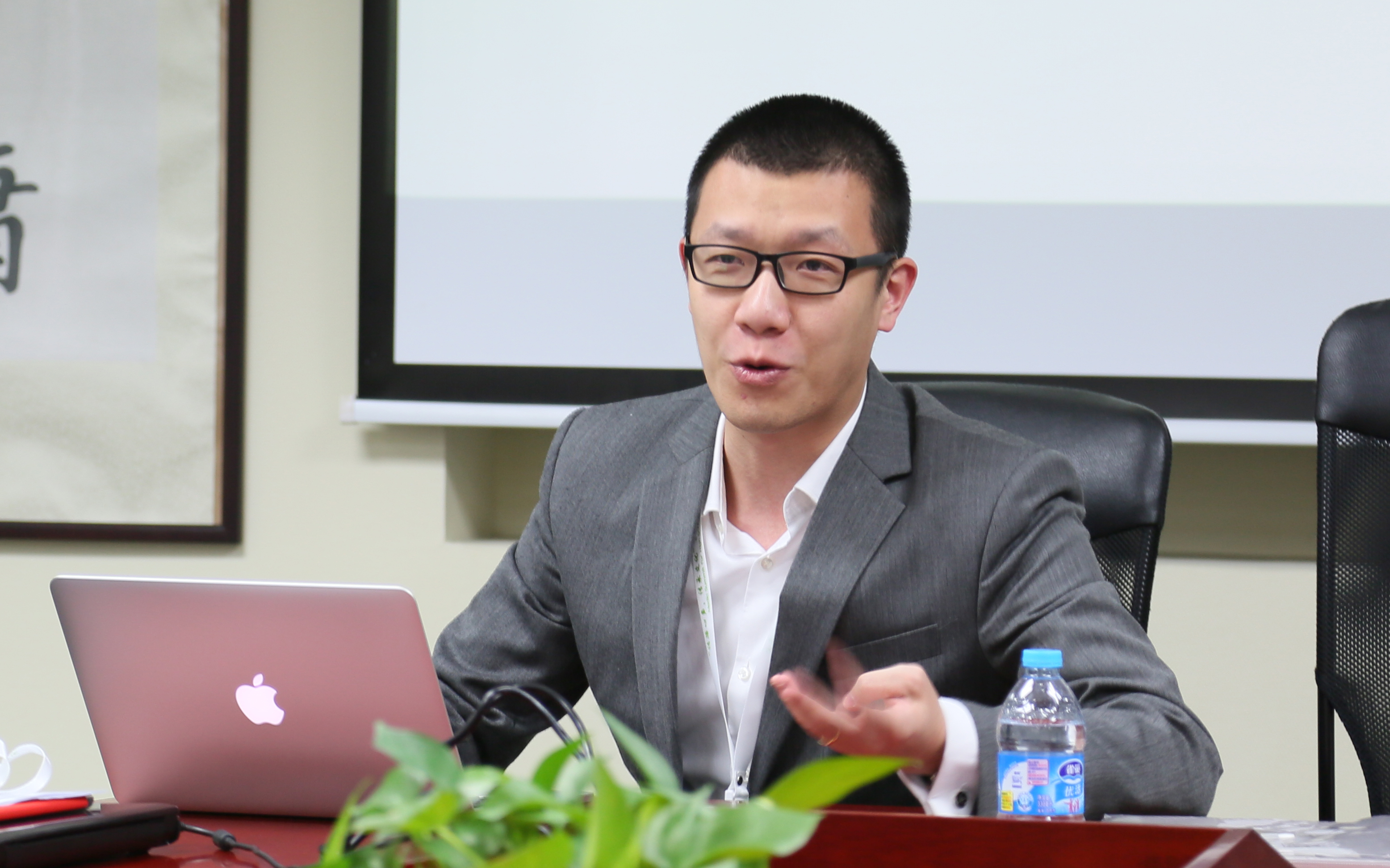 Master Lecture-Dr. Xu, Mohan, Visiting scholar at Stanford University and the Director of Talent Education (China)